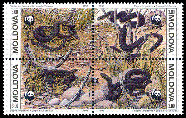 Stamp of Moldova